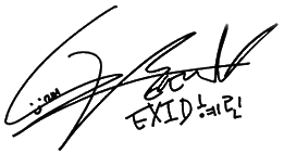 Seo Hye-lin Signature.